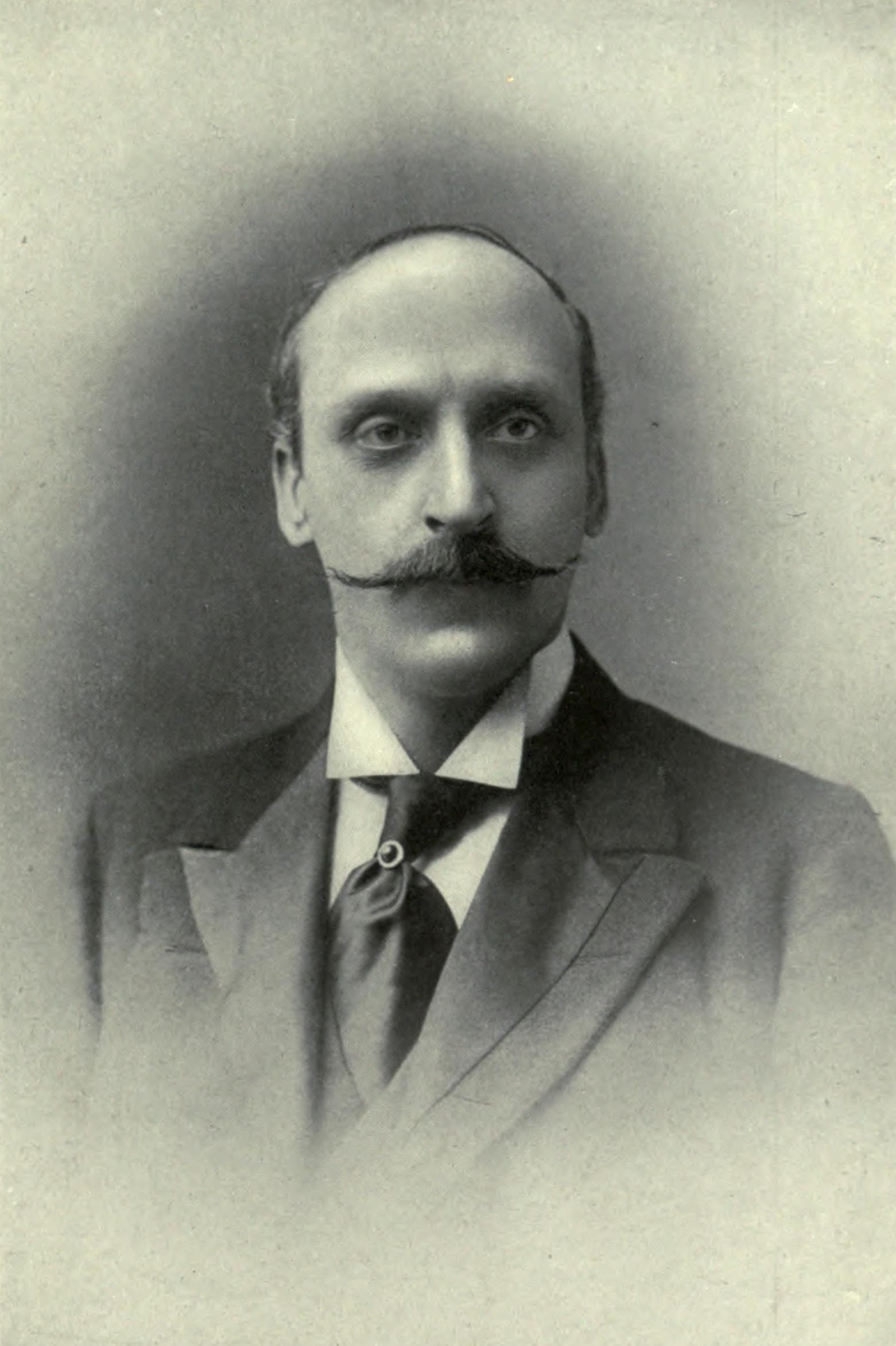 Lionel Monckton